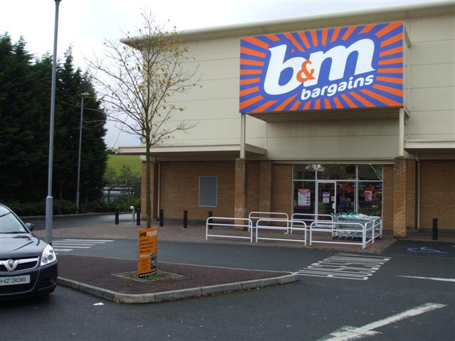 B & M Bargains, Omagh This shop, in the retail park at Homebase, took over Au Naturelle, but basically, the same goods are on sale